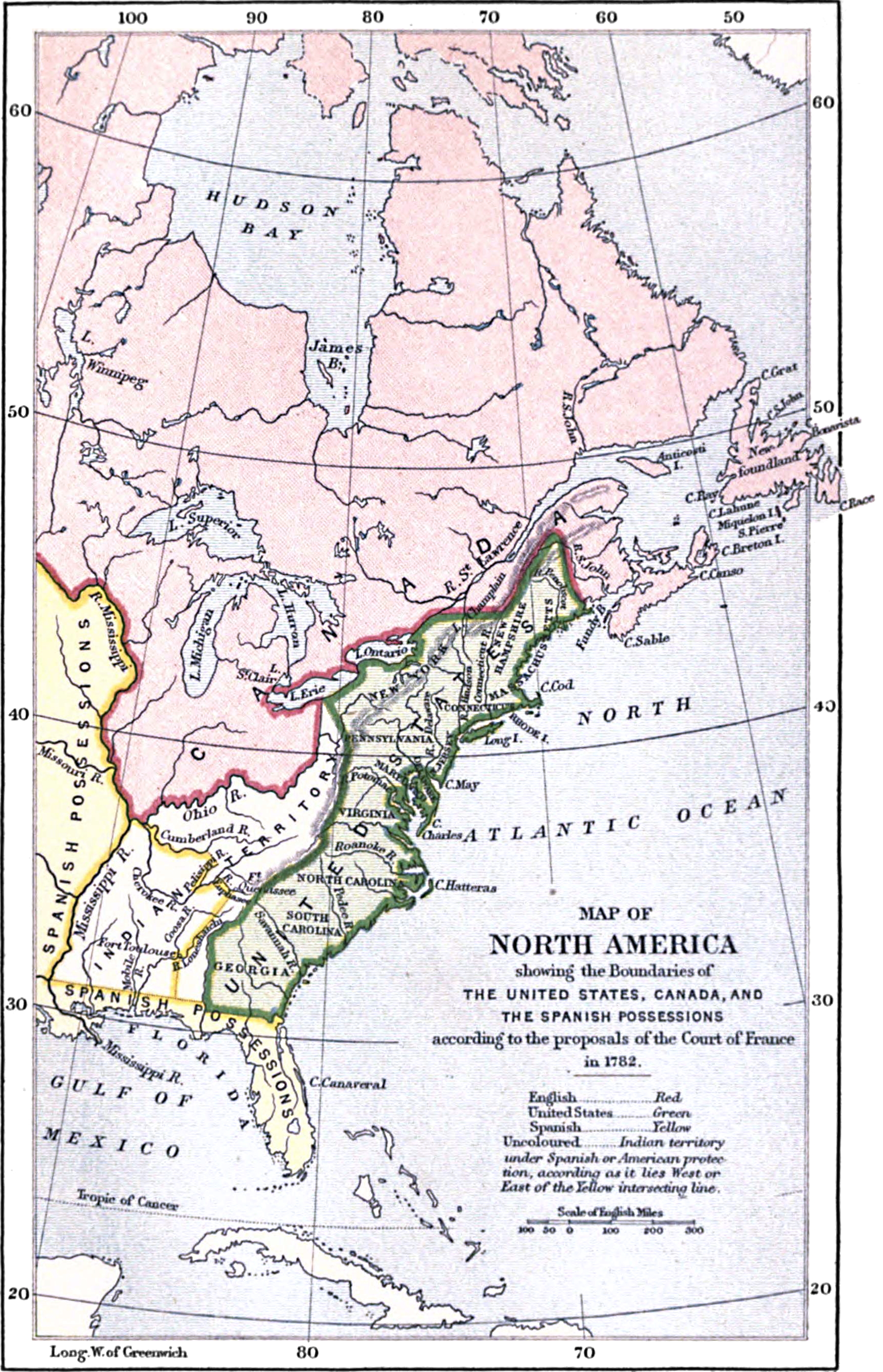 Map of North America according to the proposals of the Court of France in 1782, from Life of William, Earl of Shelburne by Edmond Fitzmaurice (2nd ed., 1912), facing p. 114. Digitally edited for colour balance.